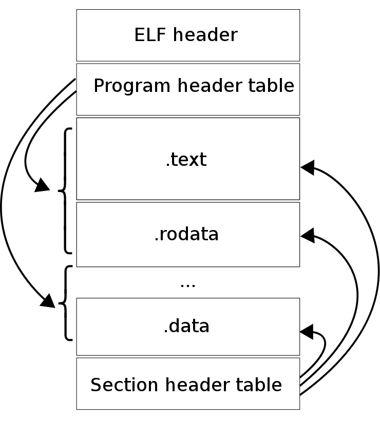 Layout of an ELF file